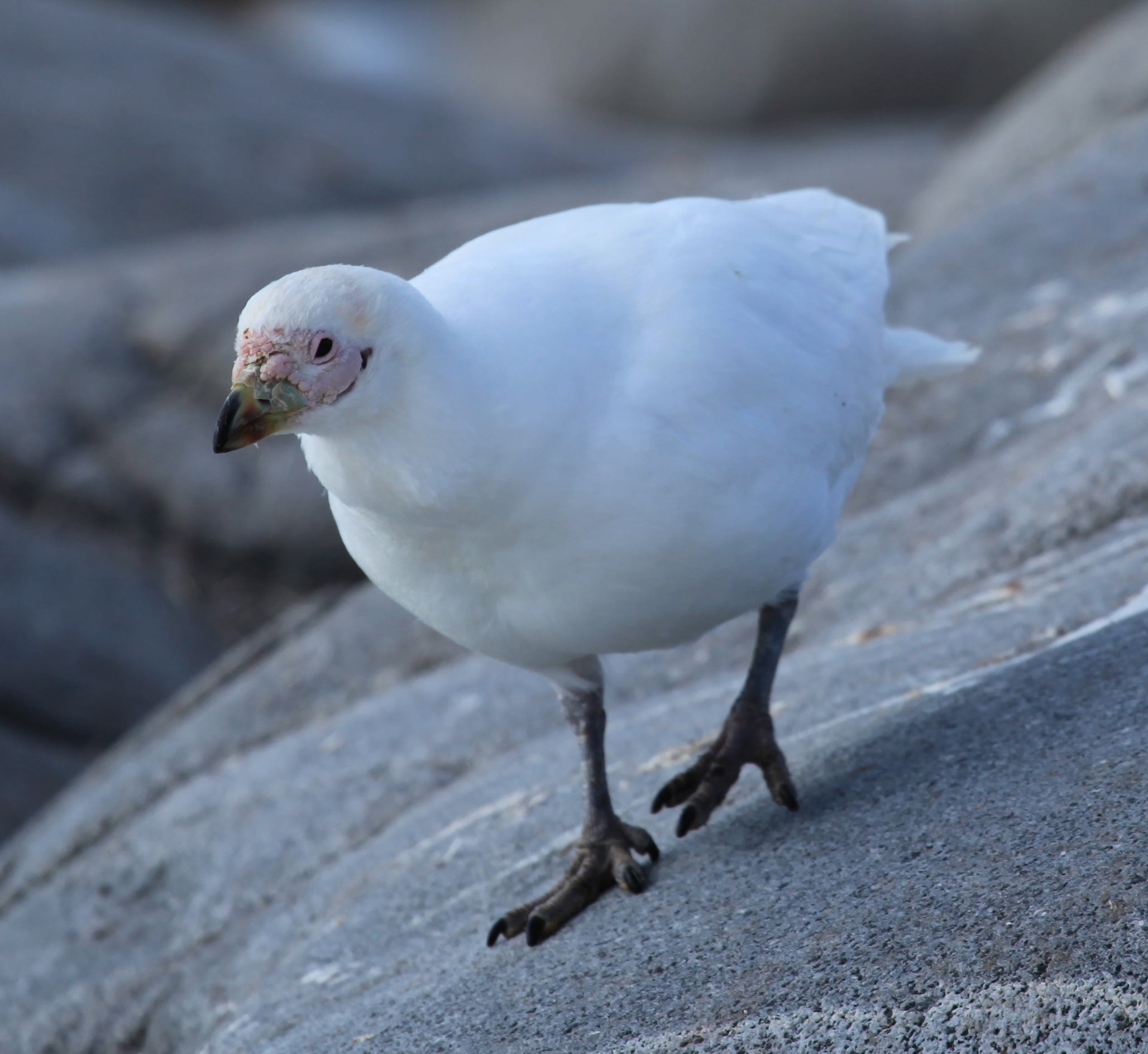 Snowy Sheathbill at Port Lockroy, Antarctica